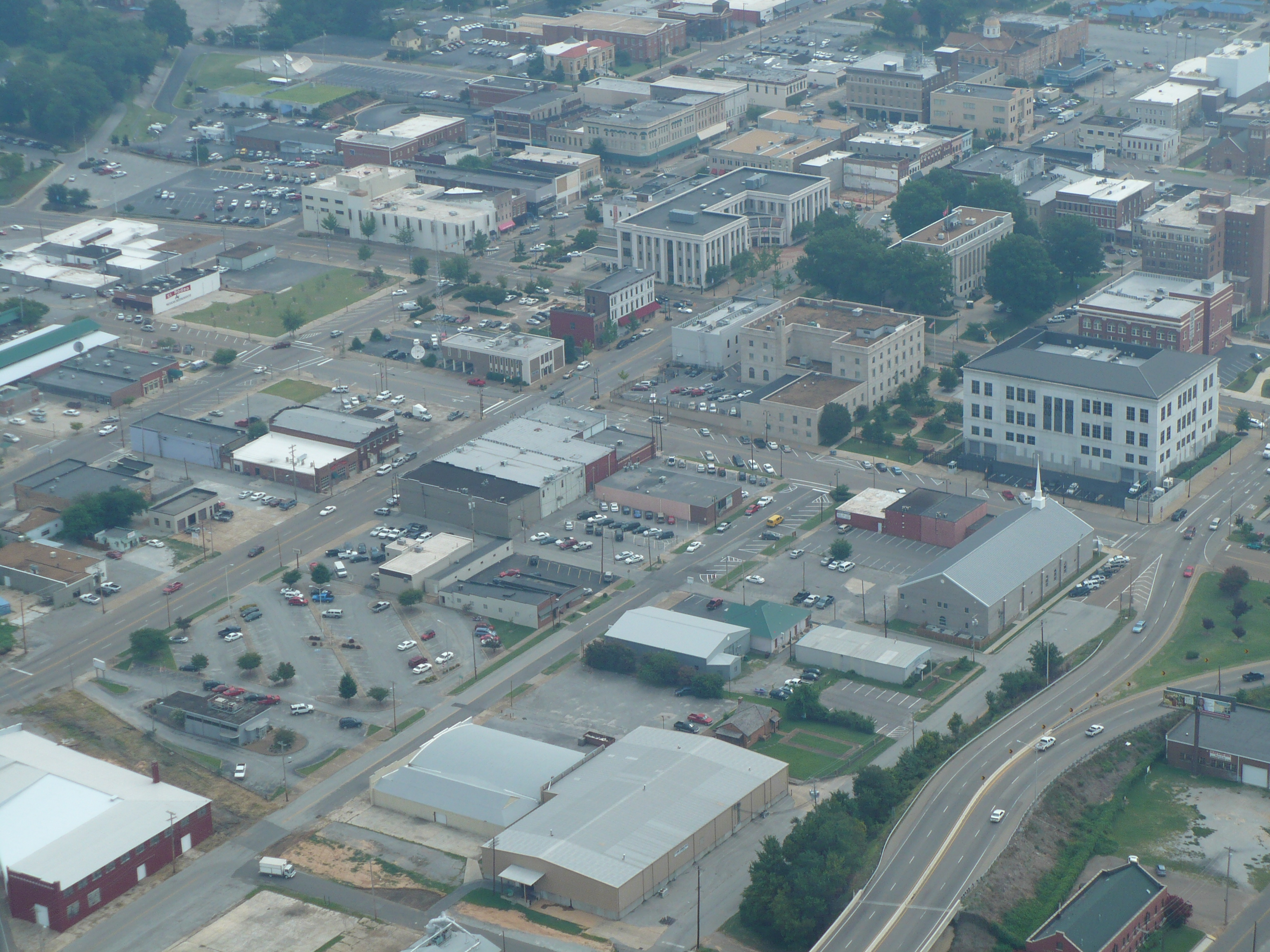 Birds eye view of Jackson, TN